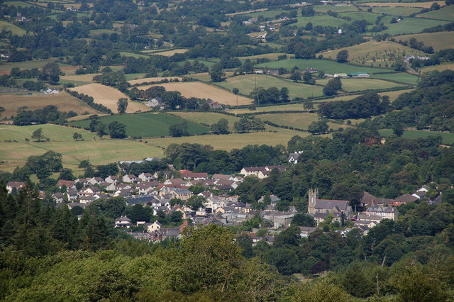 Rostrevor (elevated view) Rostrevor occupies an attractive site close to the Mournes, by the shore of Carlingford Lough and to the west of rolling countryside. This is the town seen from Kilbroney forest.